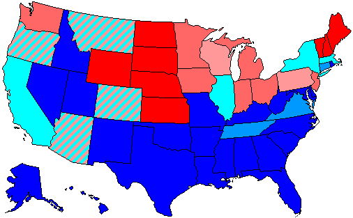 Summary of party control of U.S. house seats in the 87th United States Congress following election. Stripes indicate a tie between two or more parties. Legend: 80.1-100% Democratic seat majority 60.1-80% Democratic seat majority 60% or less Democratic seat plurality 60% or less Republican seat plurality 60.1-80% Republican seat majority 80.1-100% Republican seat majority